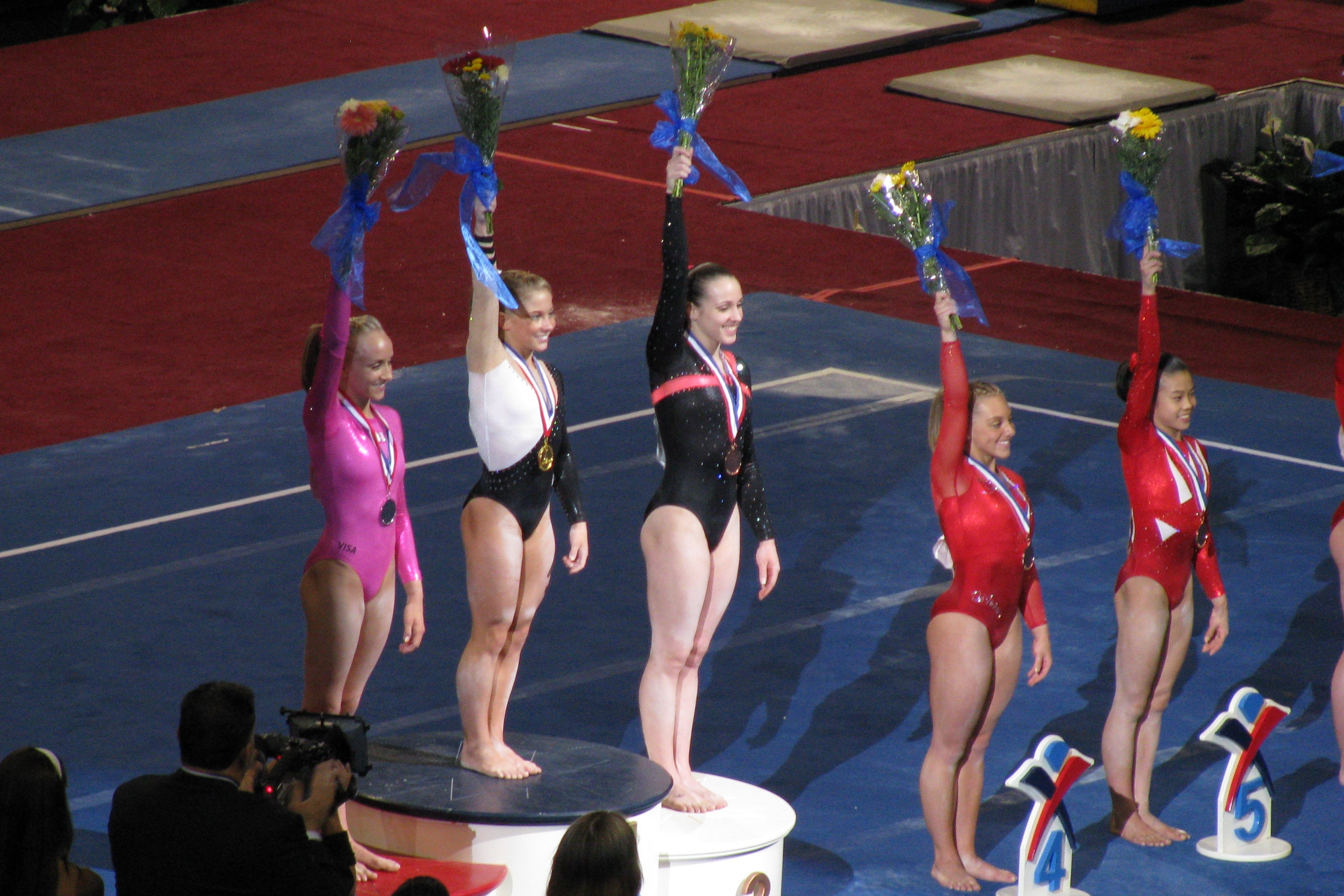 All-around medalists at the 2008 U.S. National Championships: Shawn Johnson (gold), Nastia Liukin (silver), Chellsie Memmel (bronze), Samantha Peszek (4th), Ivana Hong (5th).